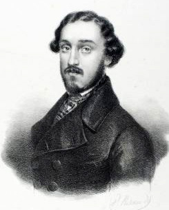 Portrait of Lodovico Graziani (1820–1885)